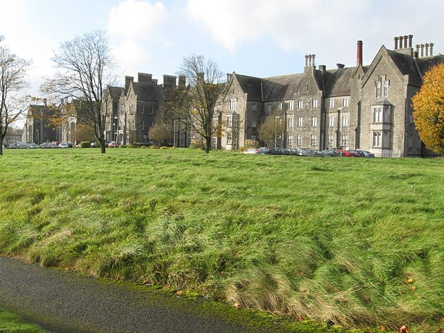 St Loman's Hospital Psychiatric Hospital at Petitswood on the outskirts of Mullingar.